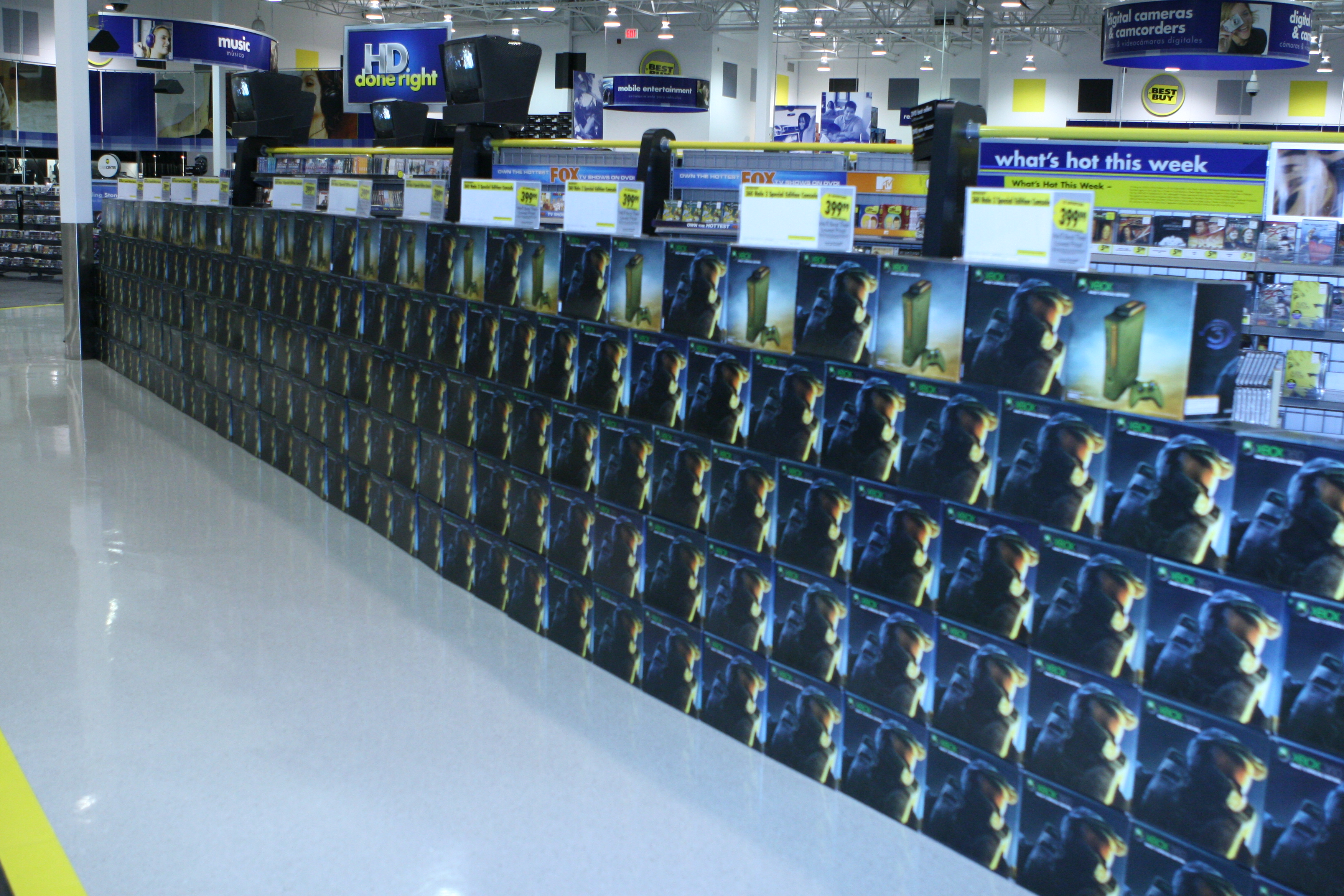 Copies of the Halo 3 "Special Edition" in Bellevue Best Buy, Seattle.